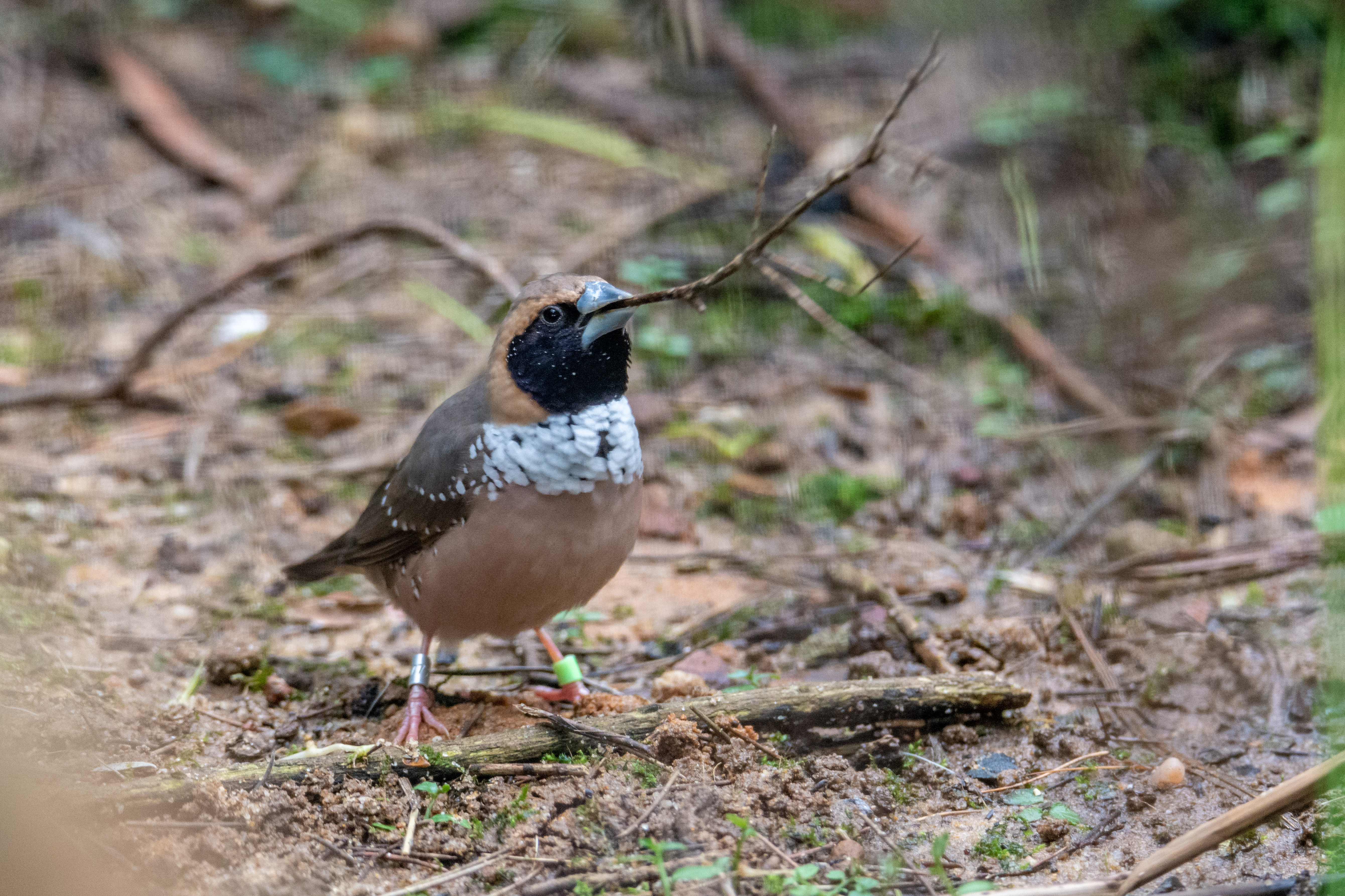 Pictorella munia in captivity photographed at the Taronga Zoo